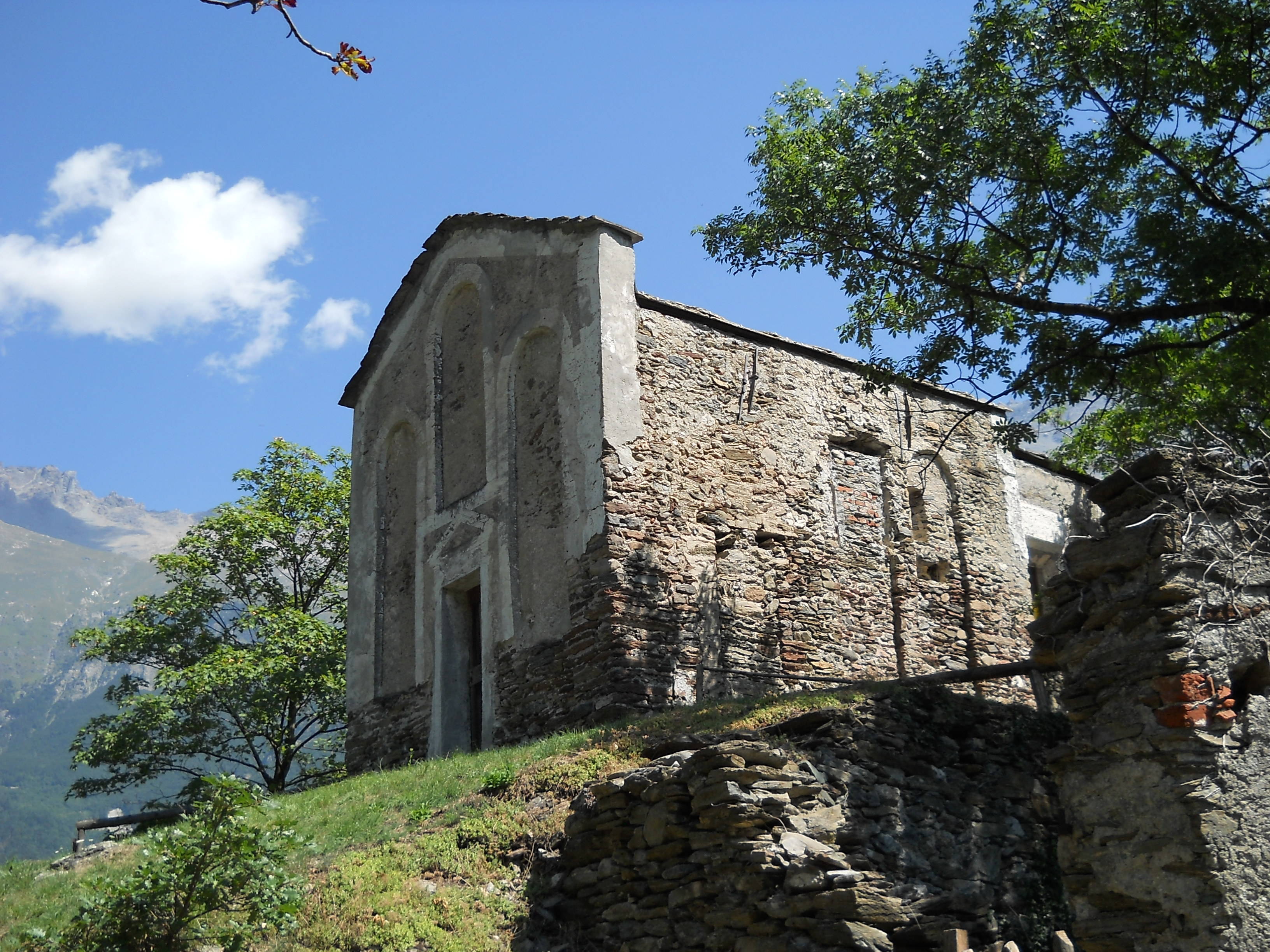 St. Michael chapel, Novalesa Abbey, Turin, Italy